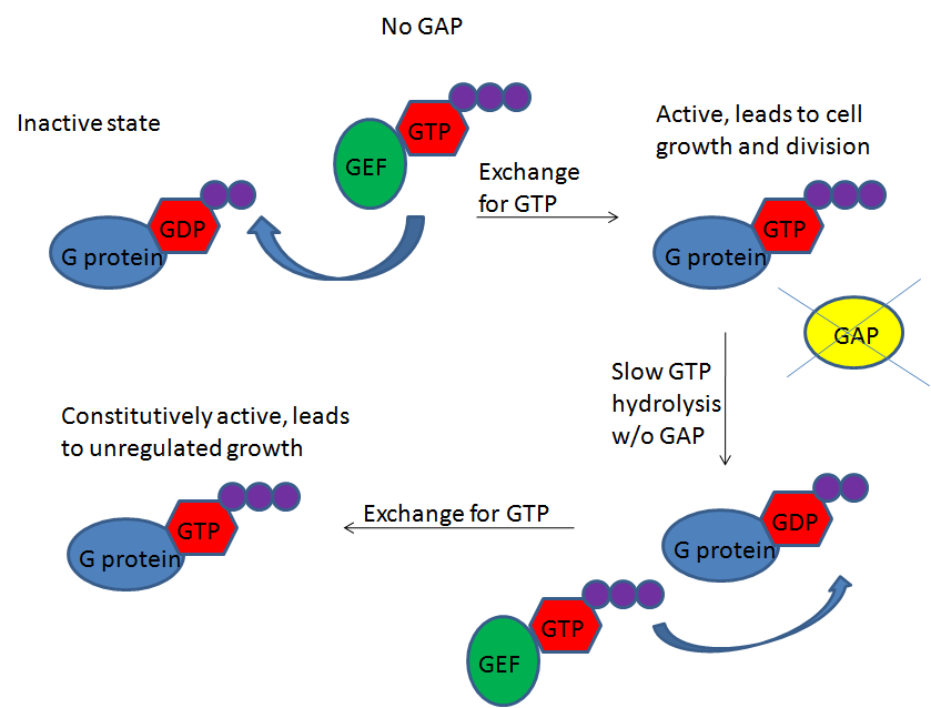 G proteins are never turned off without GAP because hydrolytic activity is slow and GEFs constantly replace the GDPs for GTPs, resulting in constitutively active G proteins and unregulated cell division.